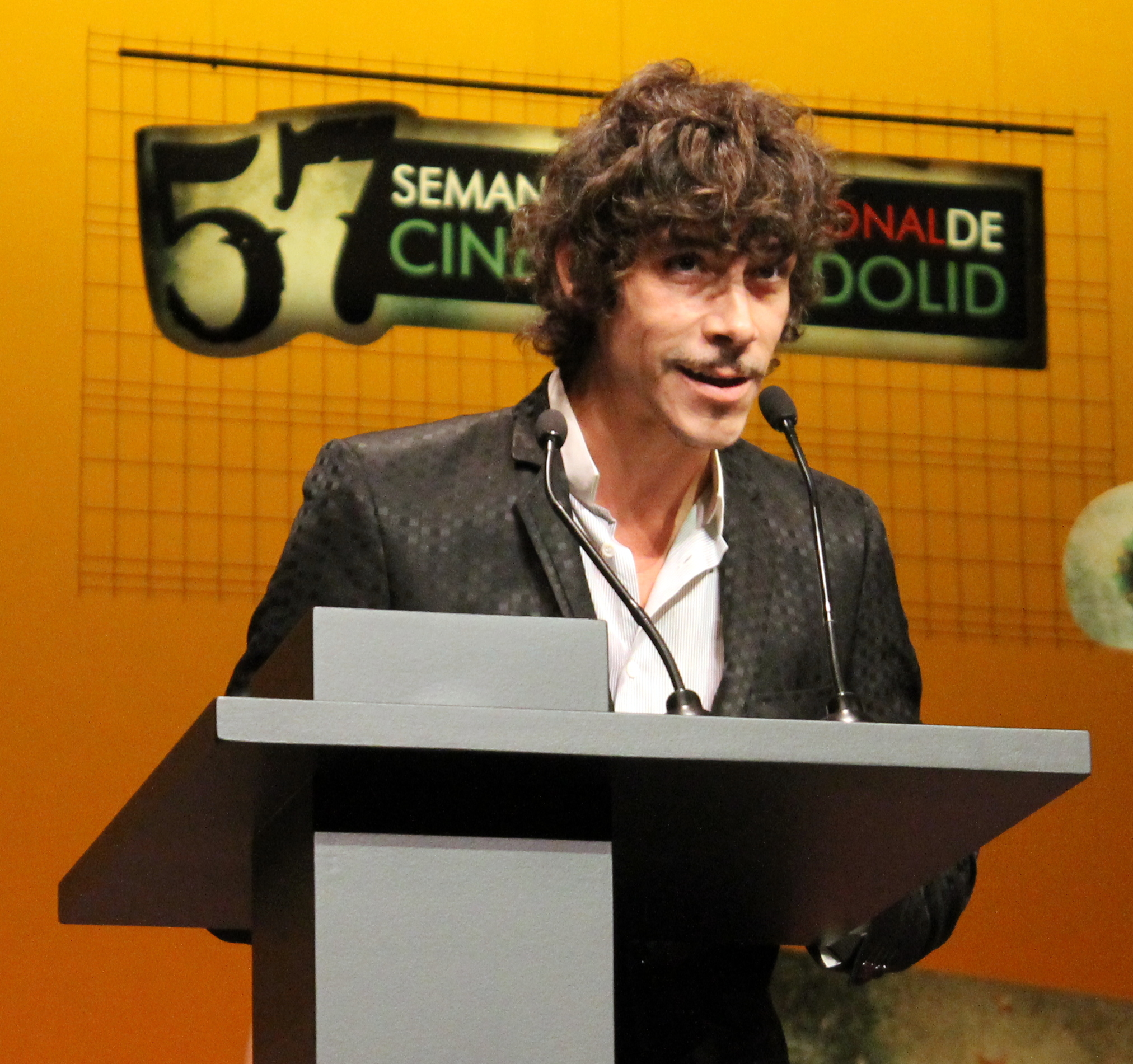 Óscar Jaenada, Spanish actor.